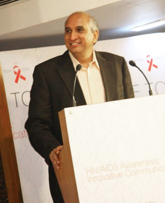 Nimmagadda Prasad at the TeachAIDS launch in Hyderabad, India in 2010